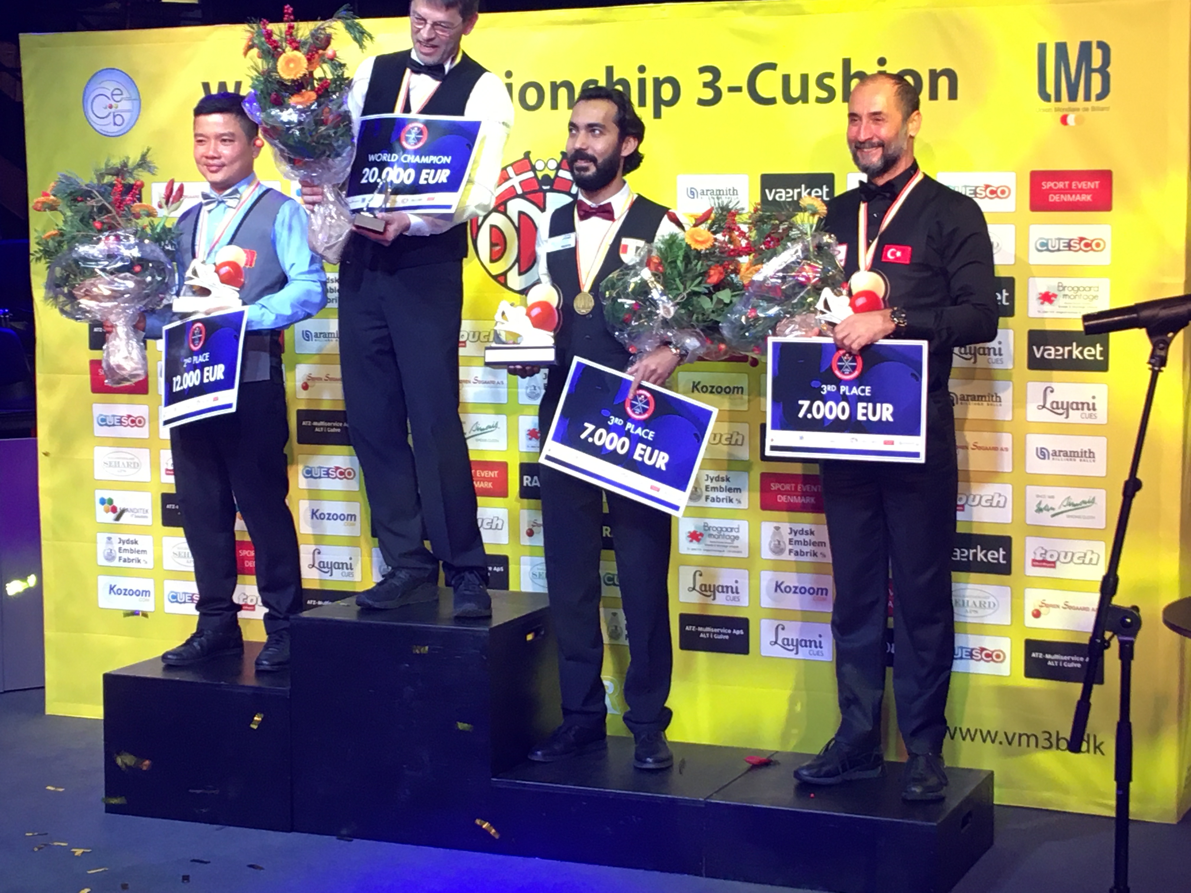 2019 World Three-cushion Championship-Award ceremony